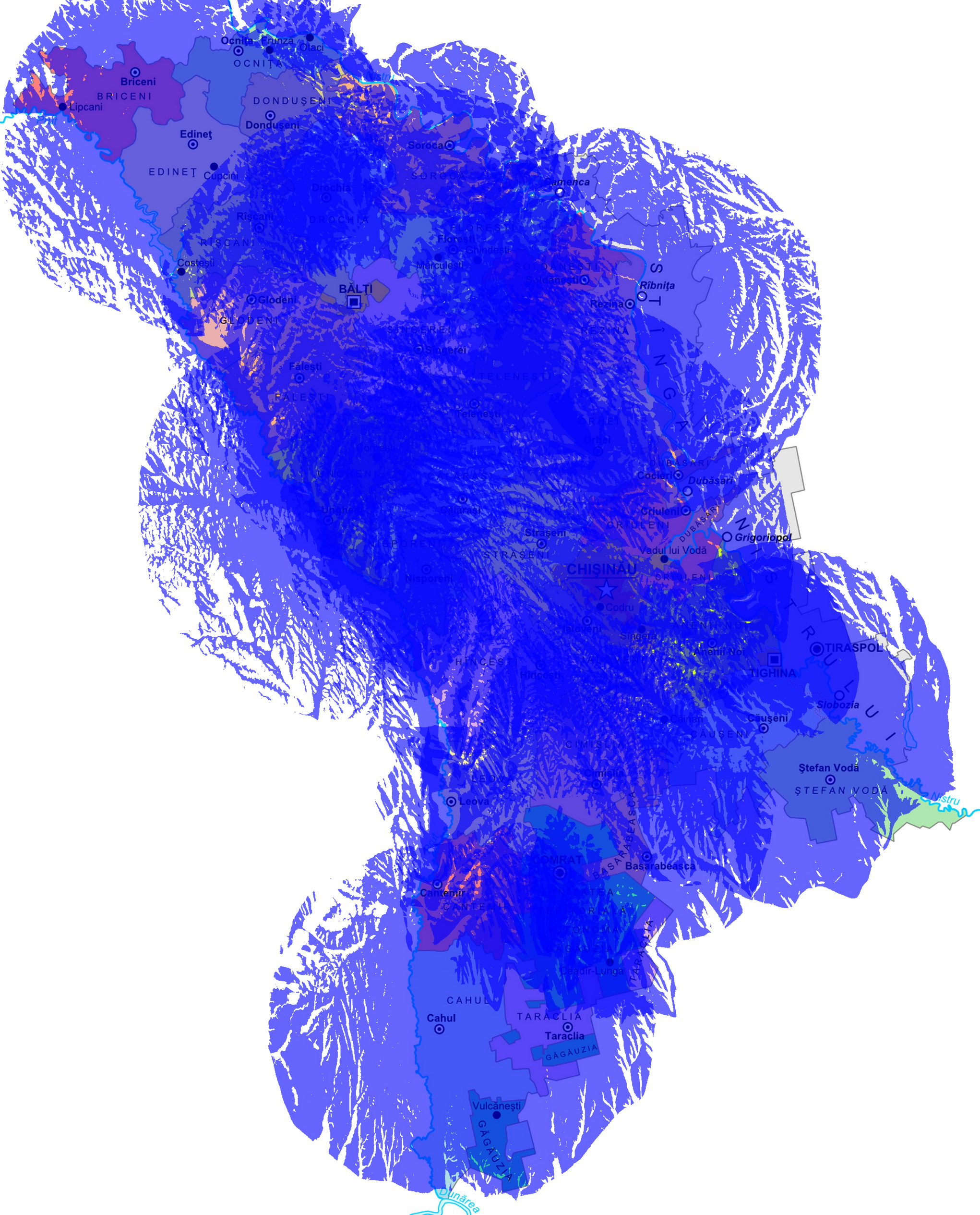 Map of the DVB-T2 signal in Moldova.